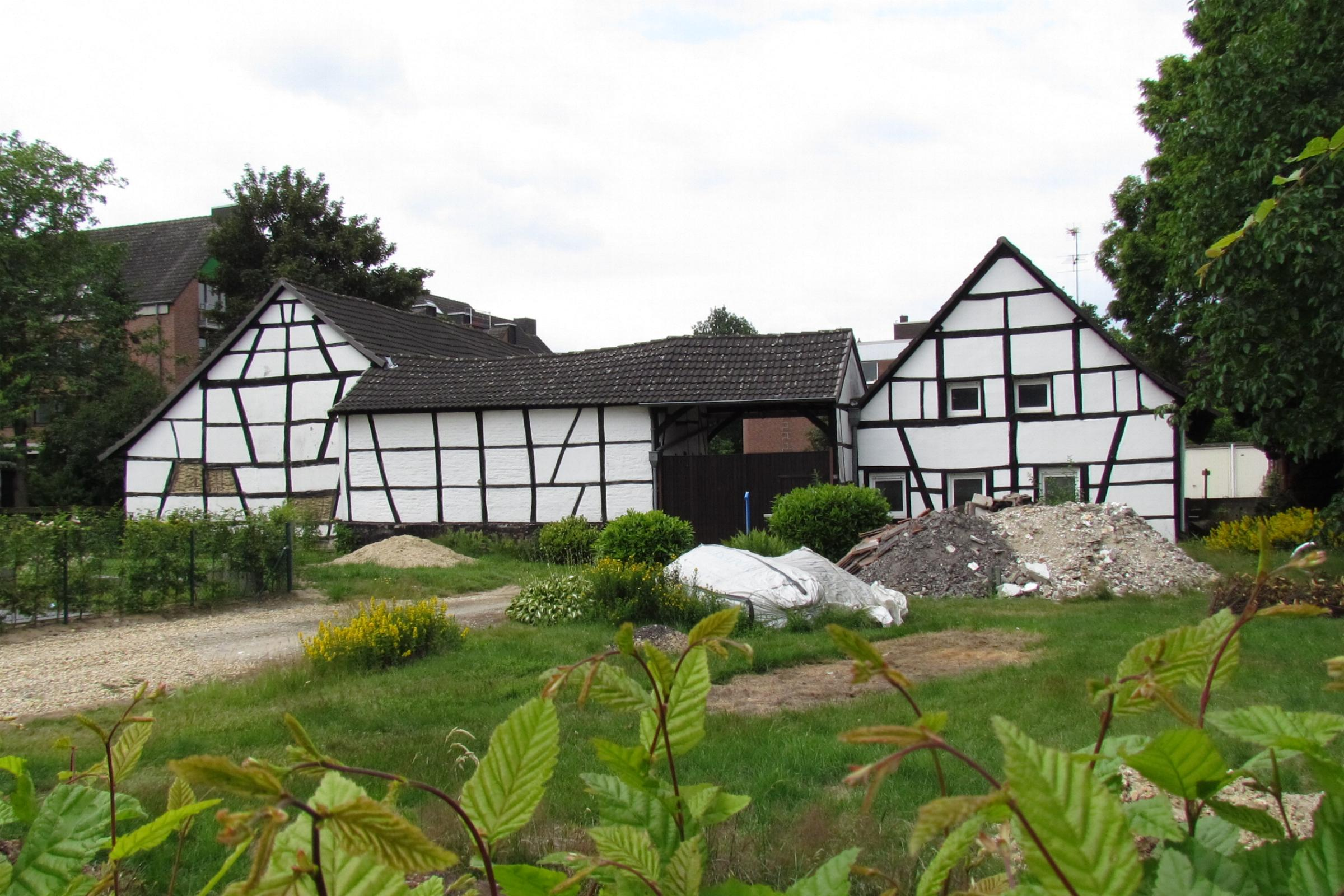 This is a photograph of an architectural monument.It is on the list of cultural monuments of Korschenbroich